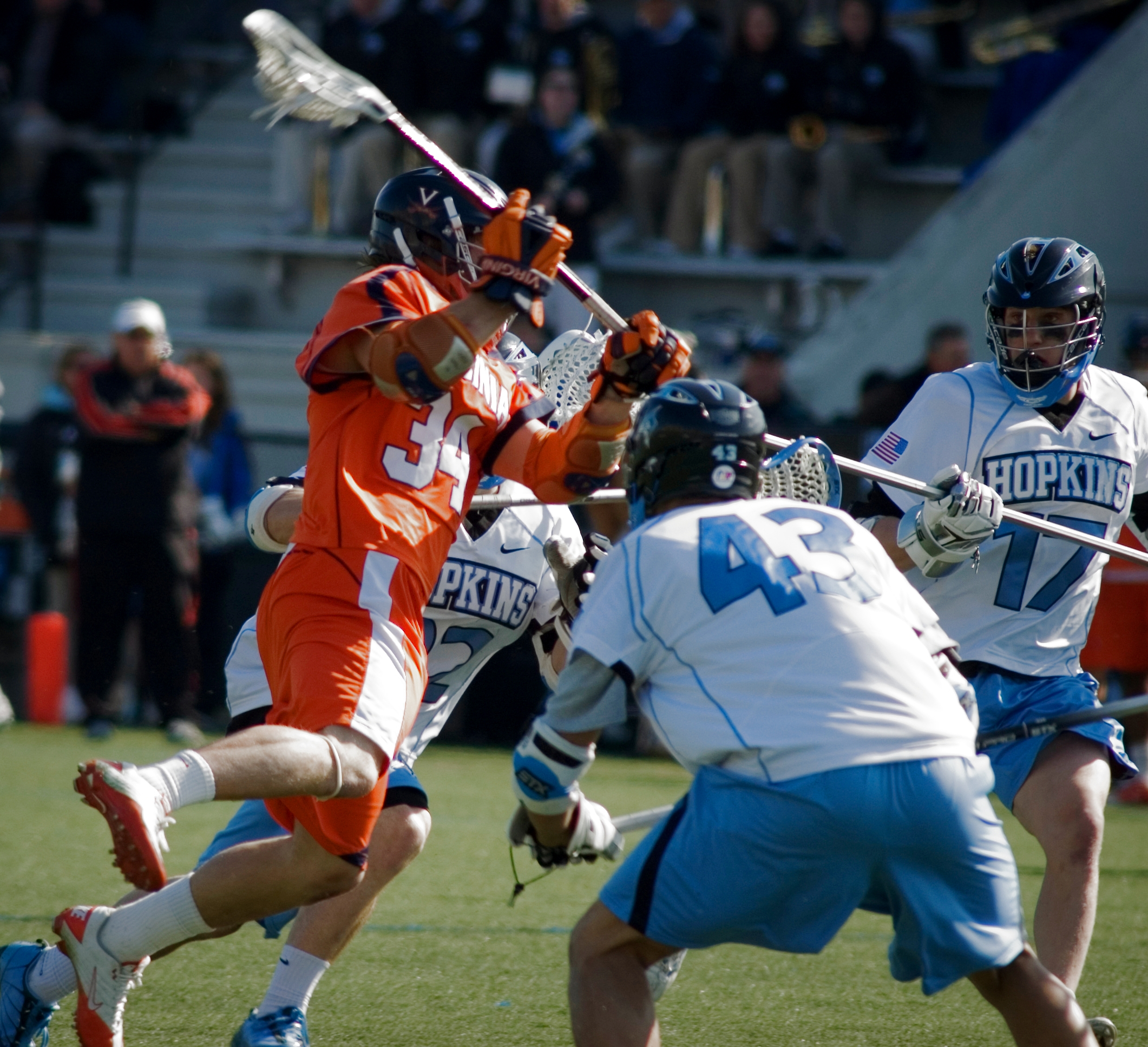 A University of Virginia lacrosse player shoots through three Johns Hopkins defenders.